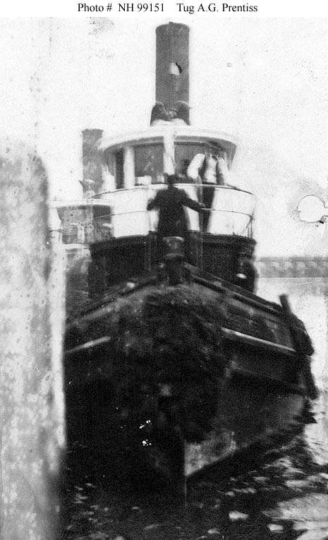 Photographed prior to her World War I era Navy service. Built at Kennebunk, Maine, in 1912, this small wooden-hulled tug was chartered to the Navy in March 1918, given the ID # 2413, and served until returned to her owner on 2 December 1918.